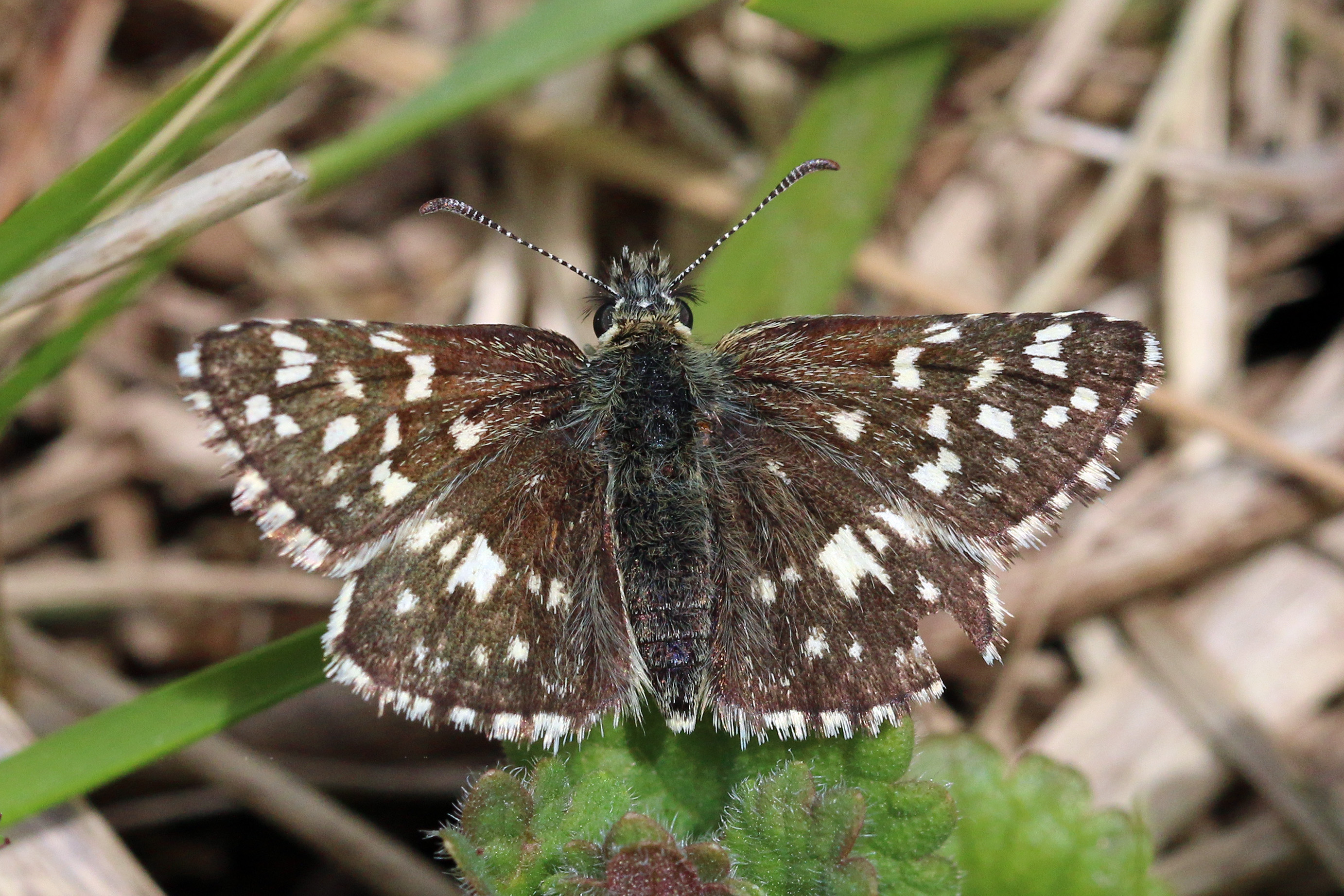 Grizzled skipper (Pyrgus malvae), Aston Upthorpe, Oxfordshire